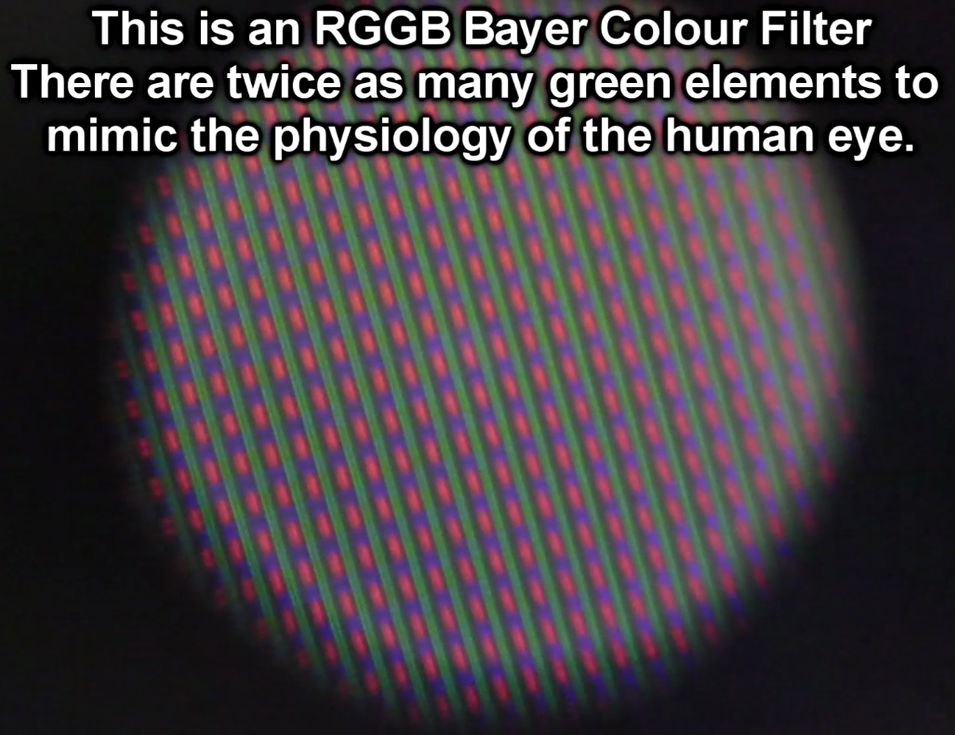 A x80 microscope view of the RGGB Bayer colour filter on a 1980's vintage 240line resolution Sony PAL Camcorder CCD